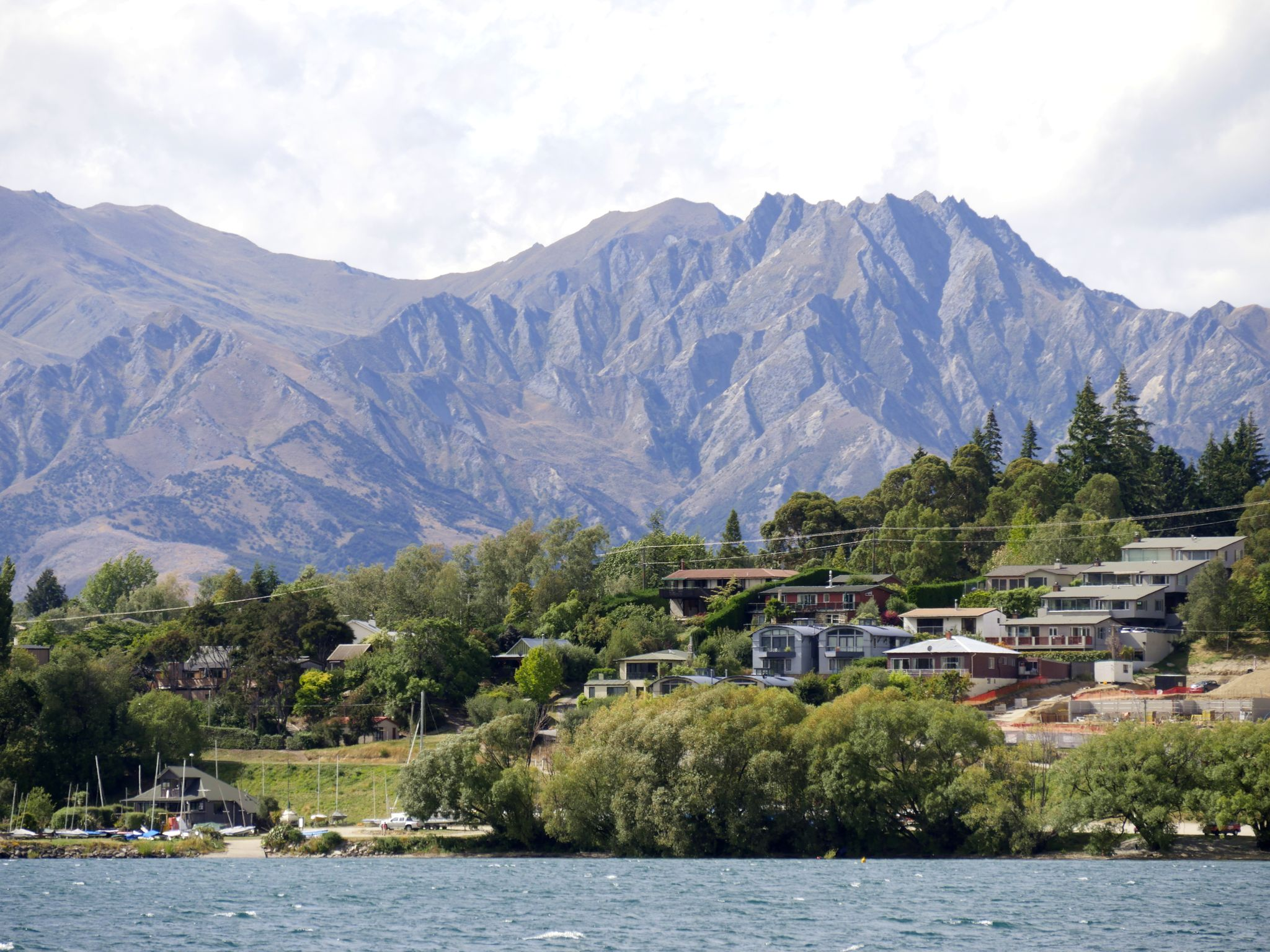 Wanaka East with mountain, Wanaka, Queenstown-Lakes District, Otago Region, South Island, New Zealand